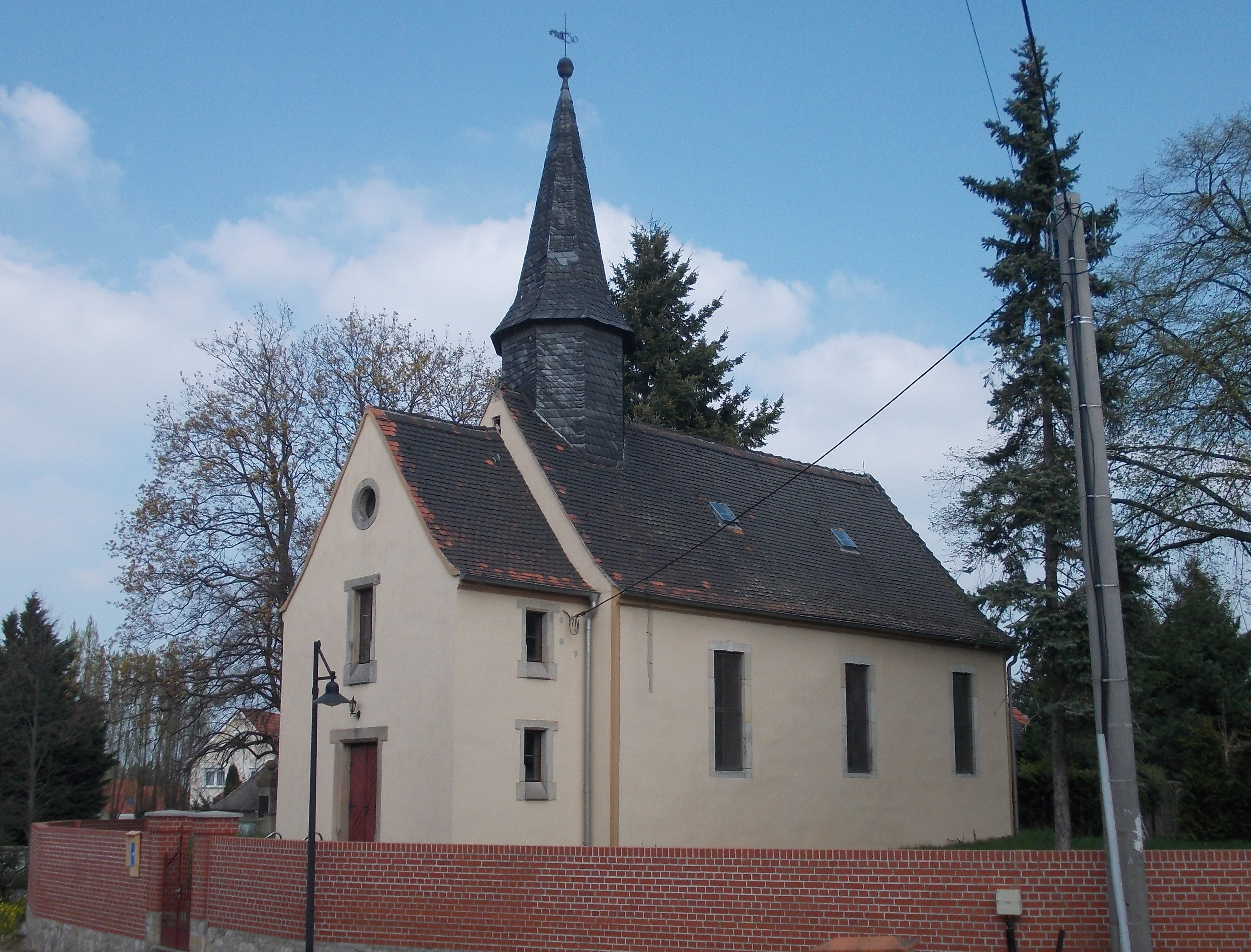 Nellschütz church (Lützen, district: Burgenlandkreis, Saxony-Anhalt)